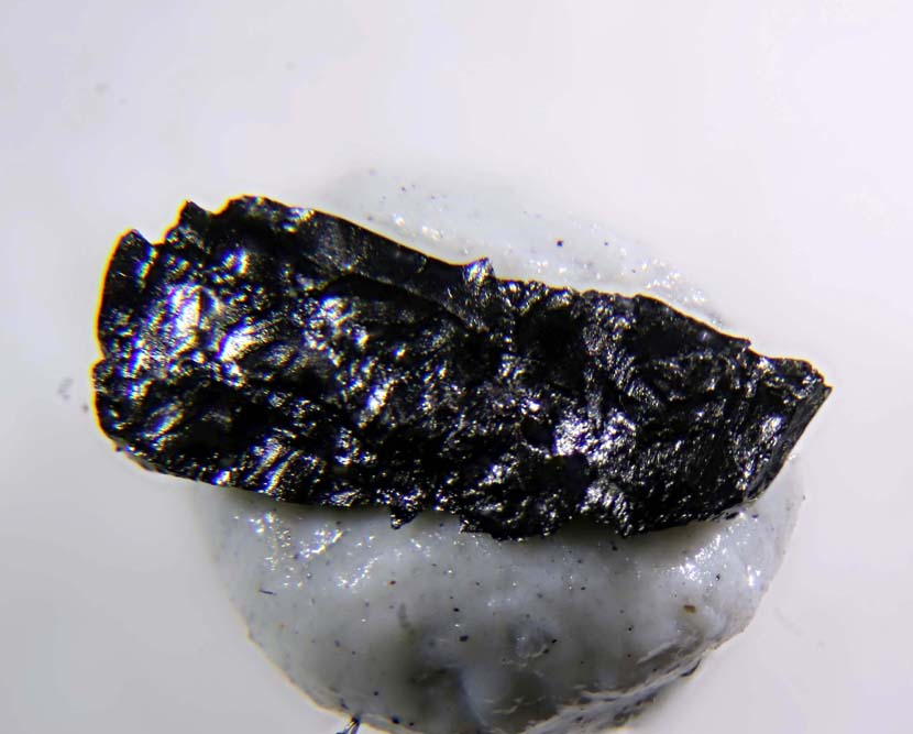 Black metallic crystals of the extremely rare iron selenide mineral achavalite, associated to cacheutaite. This second one is a mixture of Cu, Ag and Pb selenides, but not appoved by the IMA. Achavalite has only been found in two localities worldwide. From: Cacheuta Mine, Mendoza, Argentina.